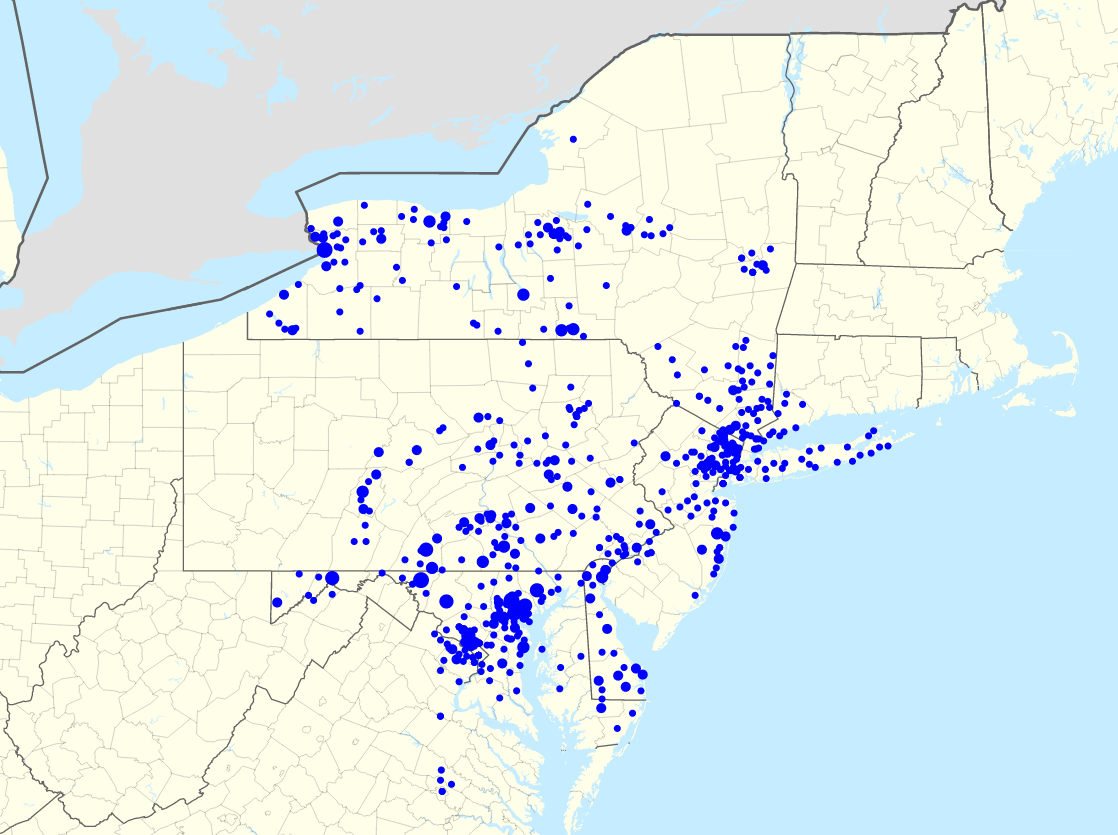 M&T footprint as of March 2016